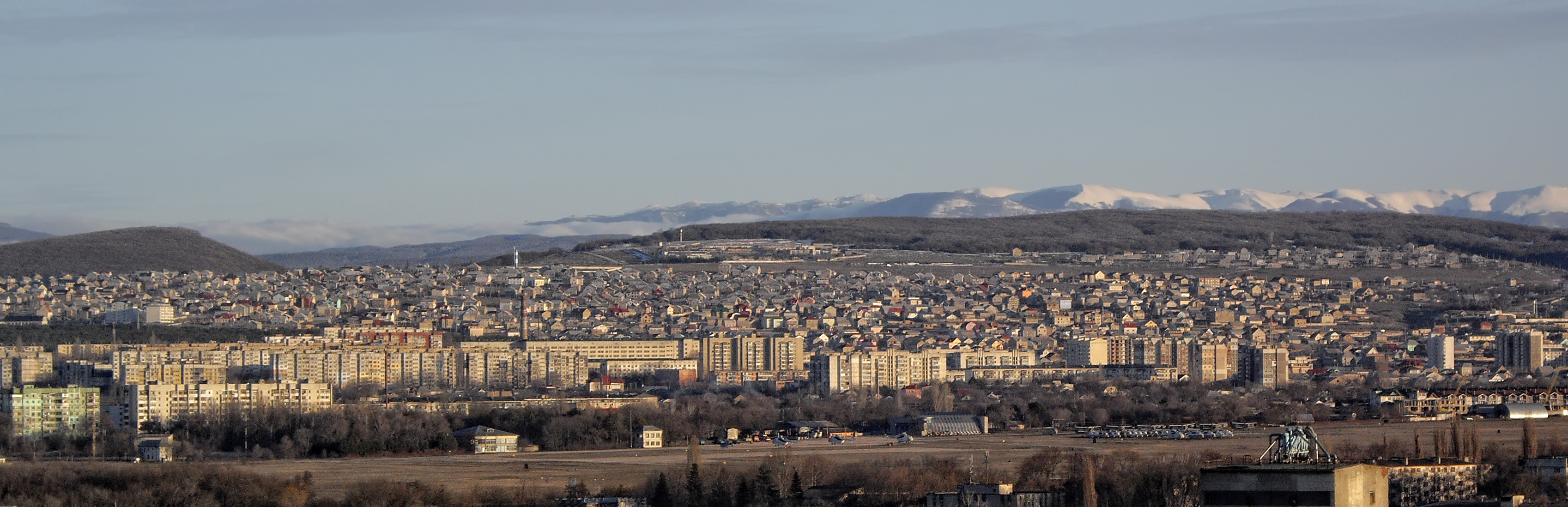 Crimean mountains. Simferopol. Crimea. Airfield Zavodskoye